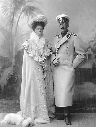 Peter Friedrich Georg von Holstein-Gottorp, Duke of Oldenburg (right), with his wife Grand Duchess Olga Alexandrovna of Russia, sister of Tsar Nicolai II.